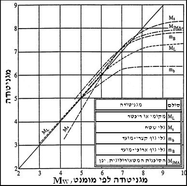 Comparison of Earthquake Magnitude Scales